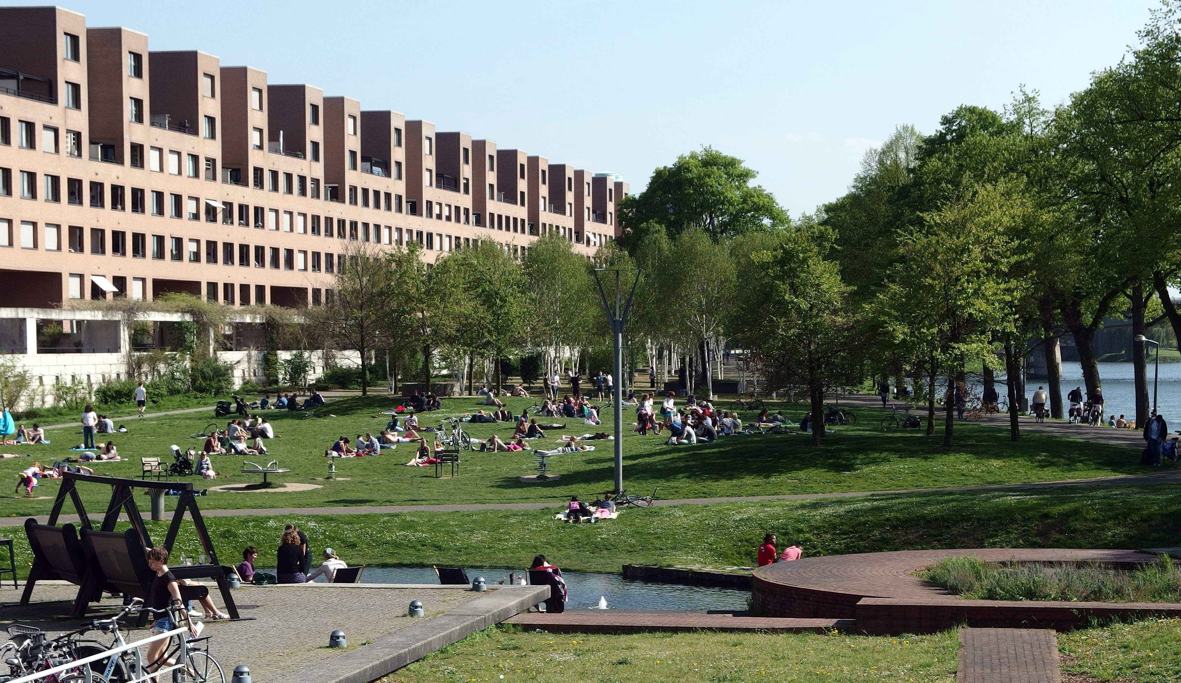 2013-05-04 in Maastricht; Céramique; Charles Eyckpark